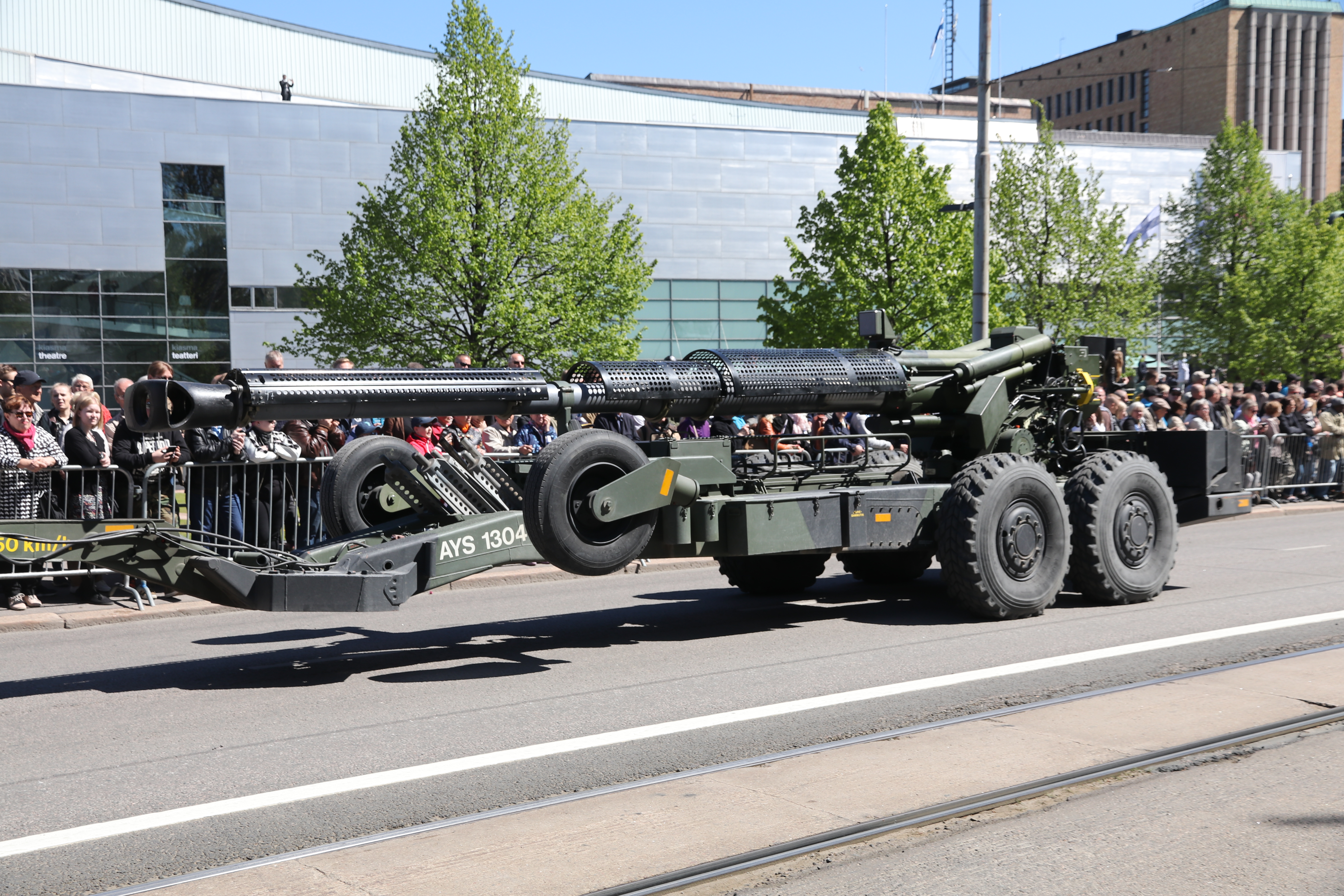 Finnish defence forces flag day 2017 parade: 155 K 98 gun.